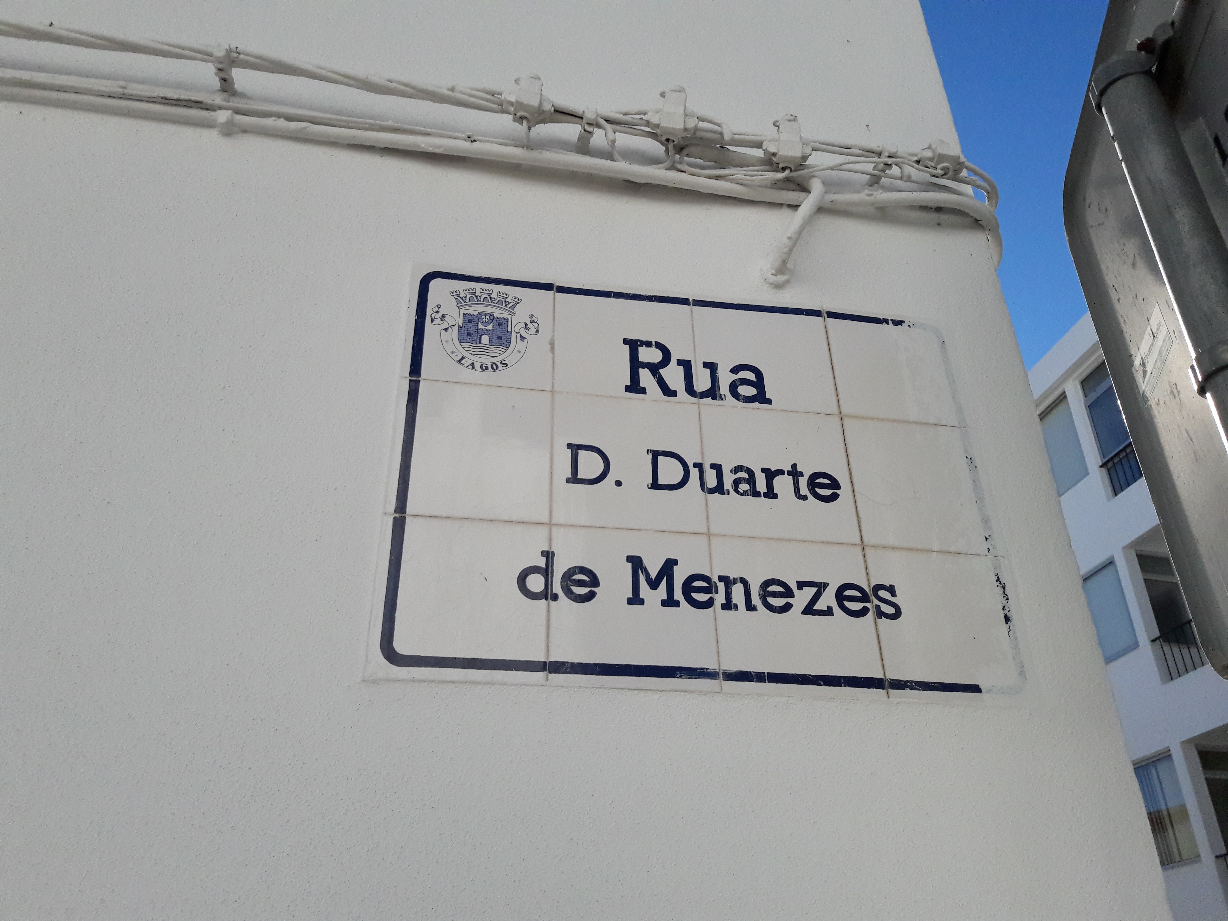 Street sign of Rua D. Duarte de Menezes, in the city of Lagos, in southern Portugal.